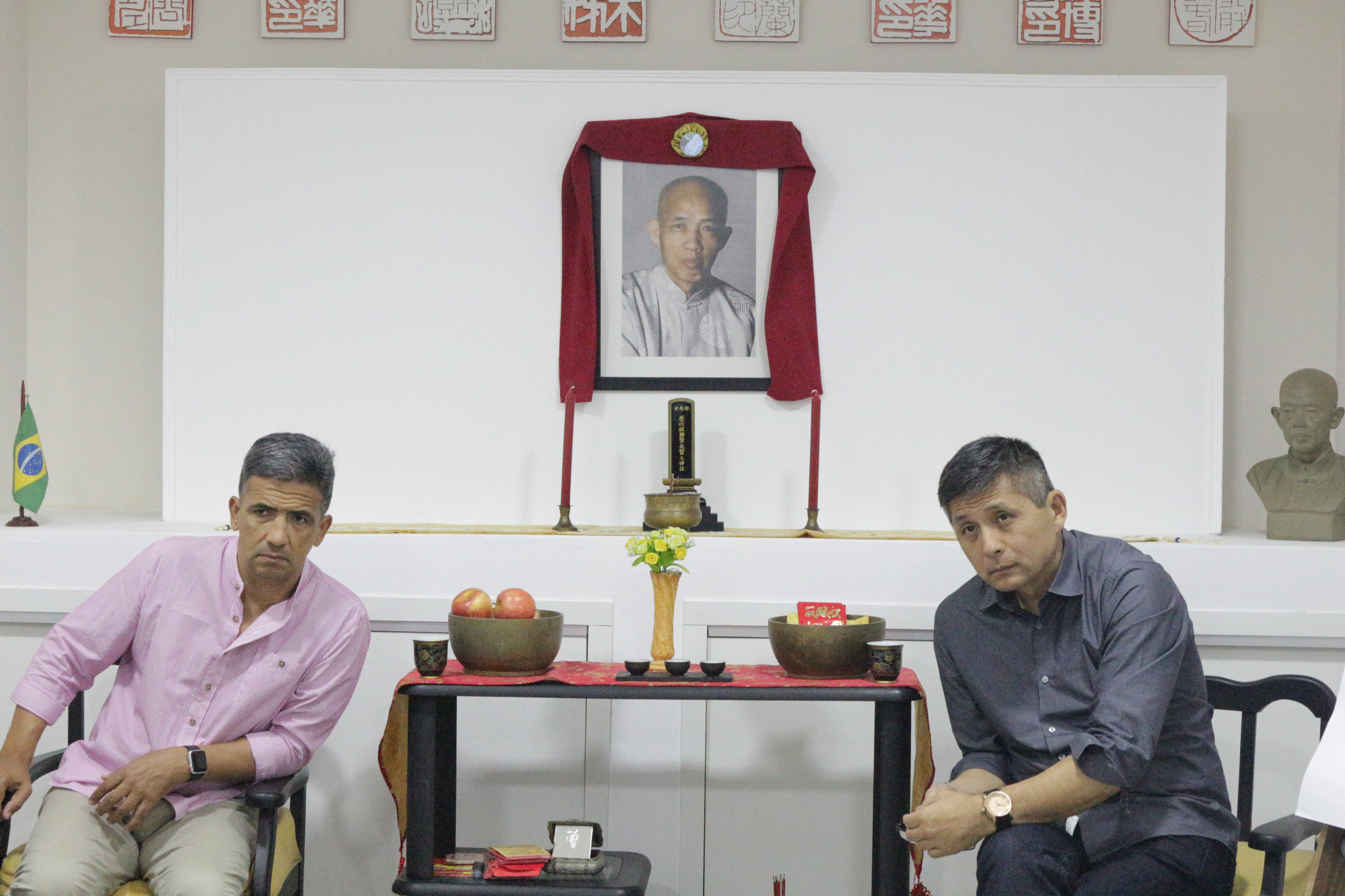 Grandmaster Leo Imamura and Master Julio Camacho in Rio de Janeiro